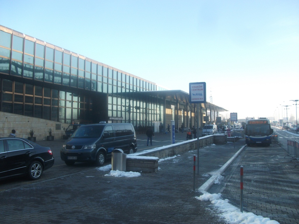 International terminal